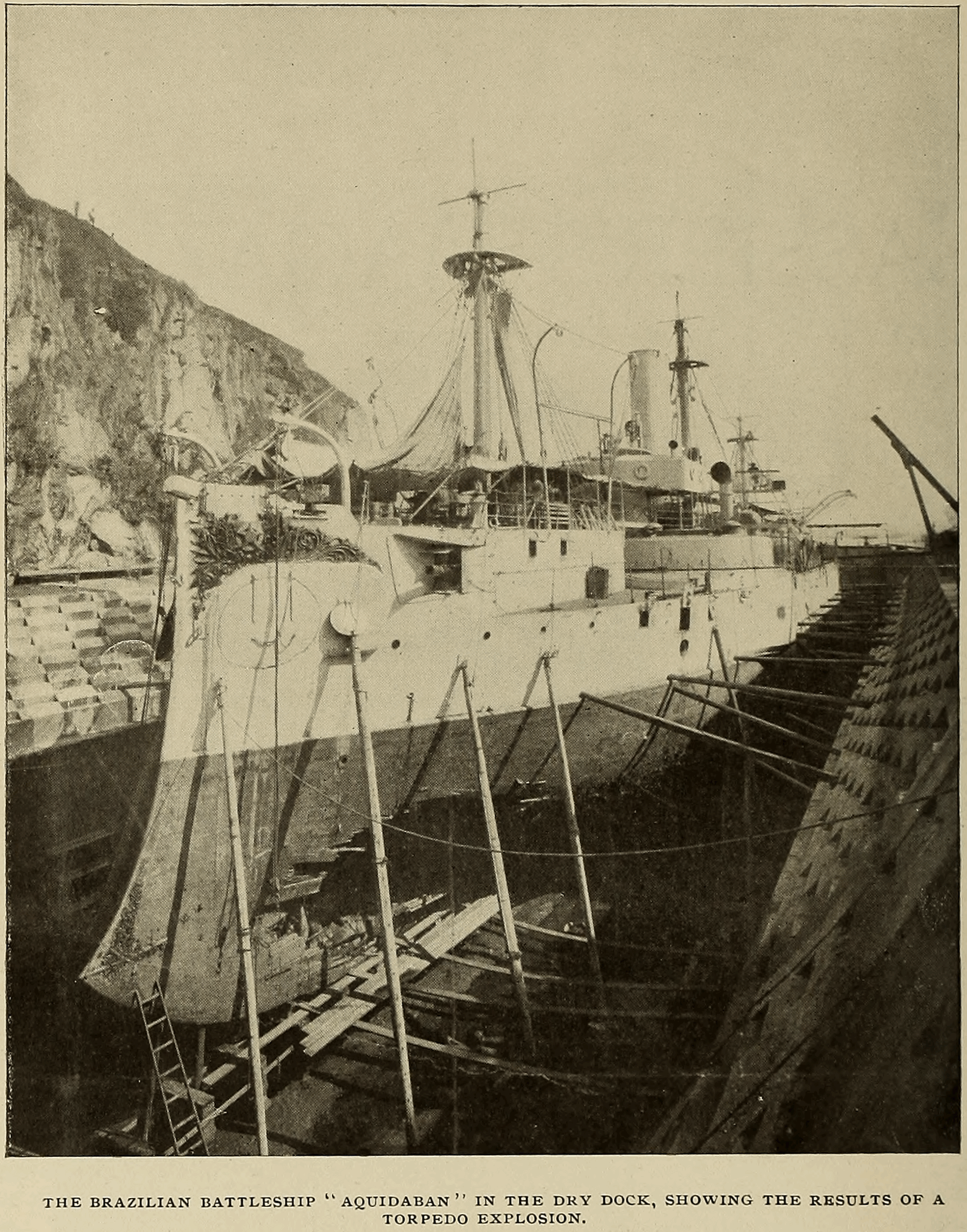 Cassier's Magazine of February 1897 had an article on page 251-259, written by R. B. Moyer and titled The Whitehead Automobile Torpedo. It was accompanied by a number of illustrations, including this photo of the Brazilian battleship Aquidabã (here called Aquidaban), in dry dock after being sunk in shallow water by a torpedo, on page 252.